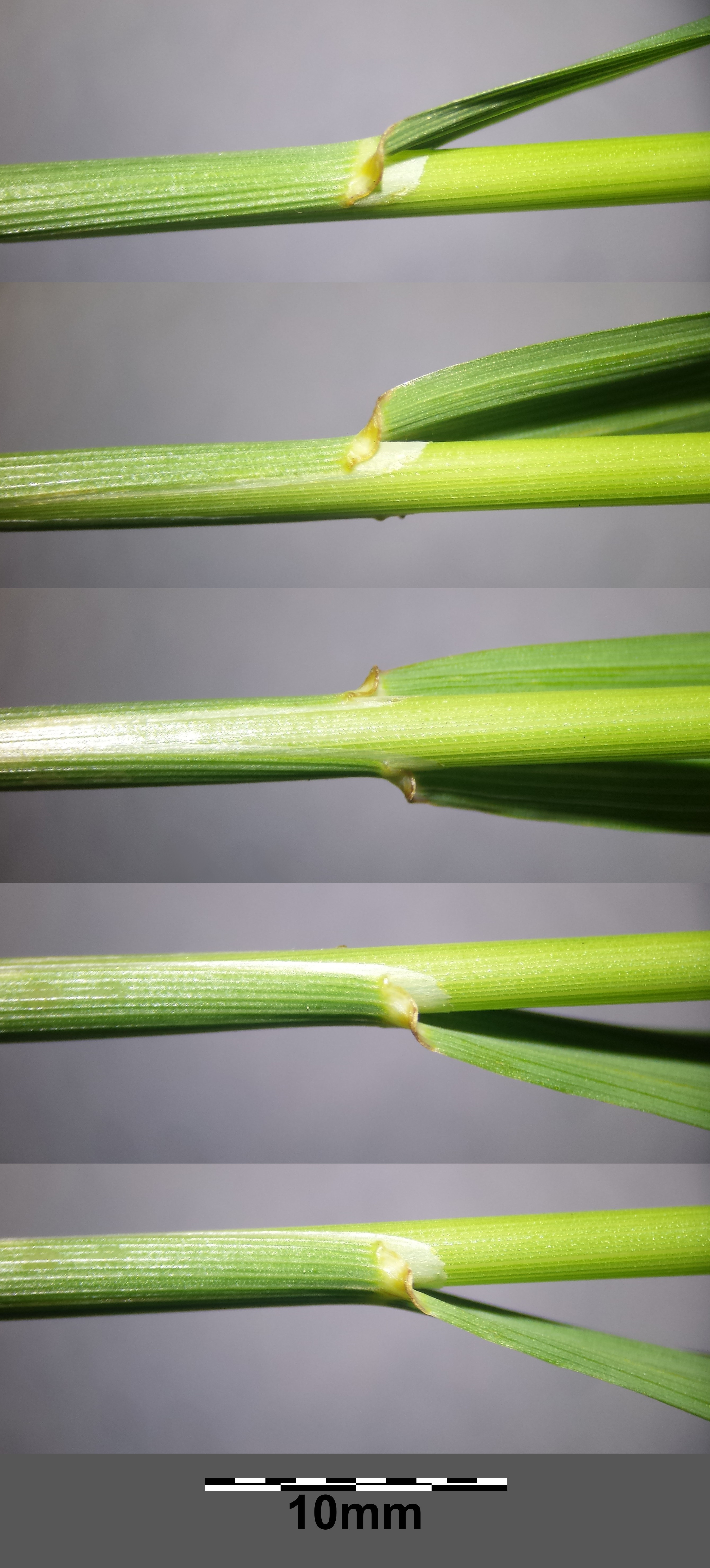 Stem with leaf sheath and ligule Taxonym: Arrhenatherum elatius ss Fischer et al. EfÖLS 2008 ISBN 978-3-85474-187-9 Location: Marchfeldkanal near Groß-Jedlersdorf, Wien-Floridsdorf - ca. 160 m a.s.l. Habitat: fallow land